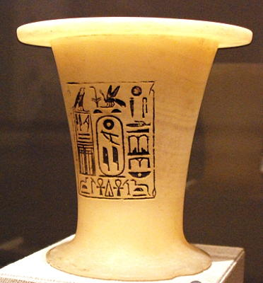 An exquisite offering vessel of the Egyptian Old Kingdom king Meryre Pepi I. It likely would have been used for the ritual of the 30 year Heb Sed Festival jubilee. Now located in the Walters Art Museum, Baltimore, Maryland. The three columns (registers) are read: Column left is a single column, read to left. Column center-and-right, are read right, as columns 2, then 1(last) Column right reads: tp-S-D, festival-pavilion, "foremost, Sed, festival," etc.-(with 3 hieroglyphs for the festival: Pavilion, Hall, and Basin(festival) Note:The bottom, horizontal-register of hieroglyphs, reads from center-left-(not in precise center), in both directions: "Given-Life-USR, forever", Di, Ankh-Usr, djet-(wsr is also 'Usr', for power, or probably "Dominion", or 'Authority', "Kingship", etc)-(i.e. Given "Living-Kingship" Forever-!--(left)--Given "Living-Kingship" Forever-!--(right)) The phrase is mostly equivalent to today's English language phrase: Long live the King, (from The King is dead. Long live the King.)